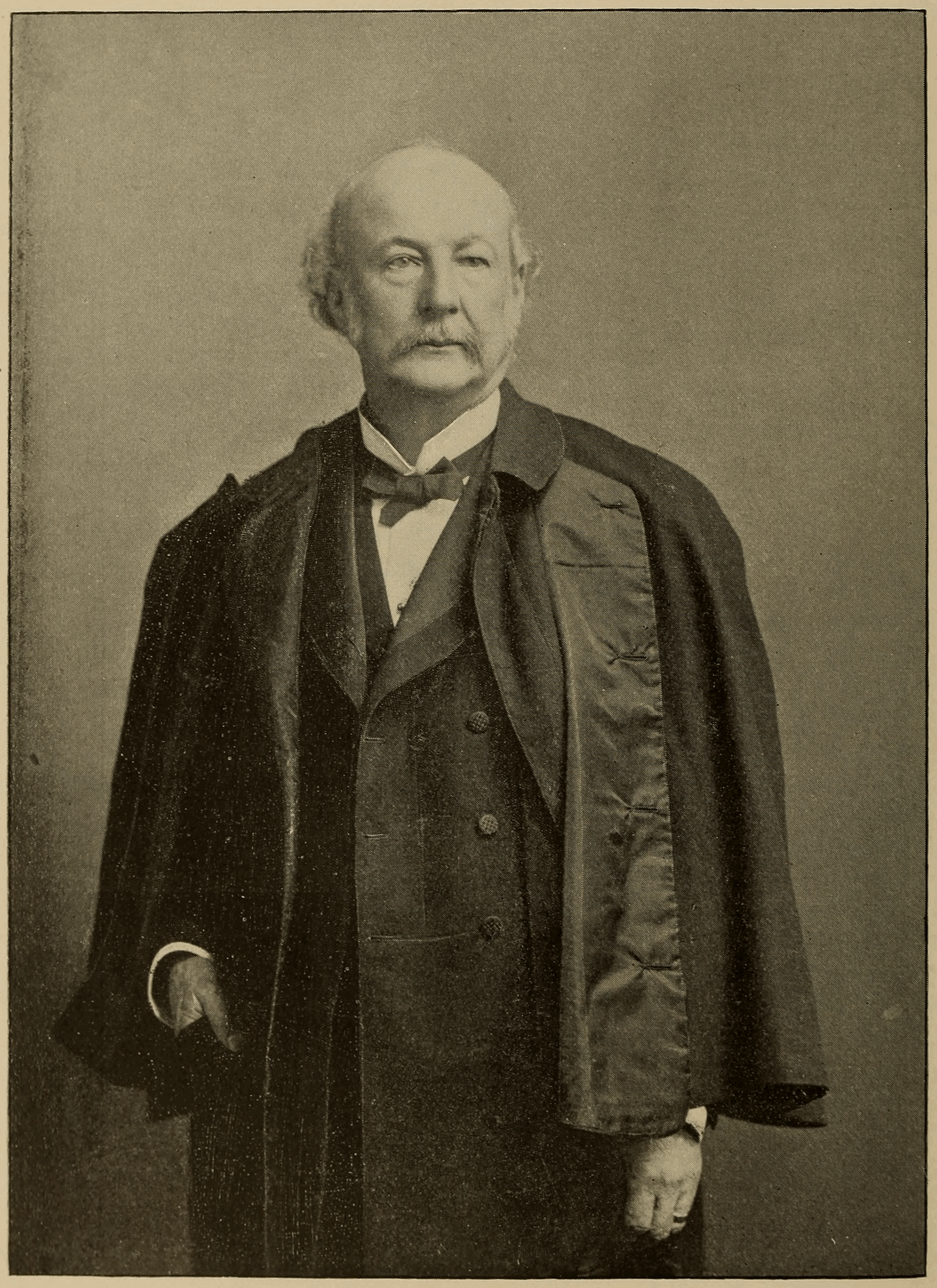 Cassier's Magazine of December 1894 had an article on page 176-178, titled E. Windsor Richards. It was accompanied by this illustration (signature cropped), on page 98.